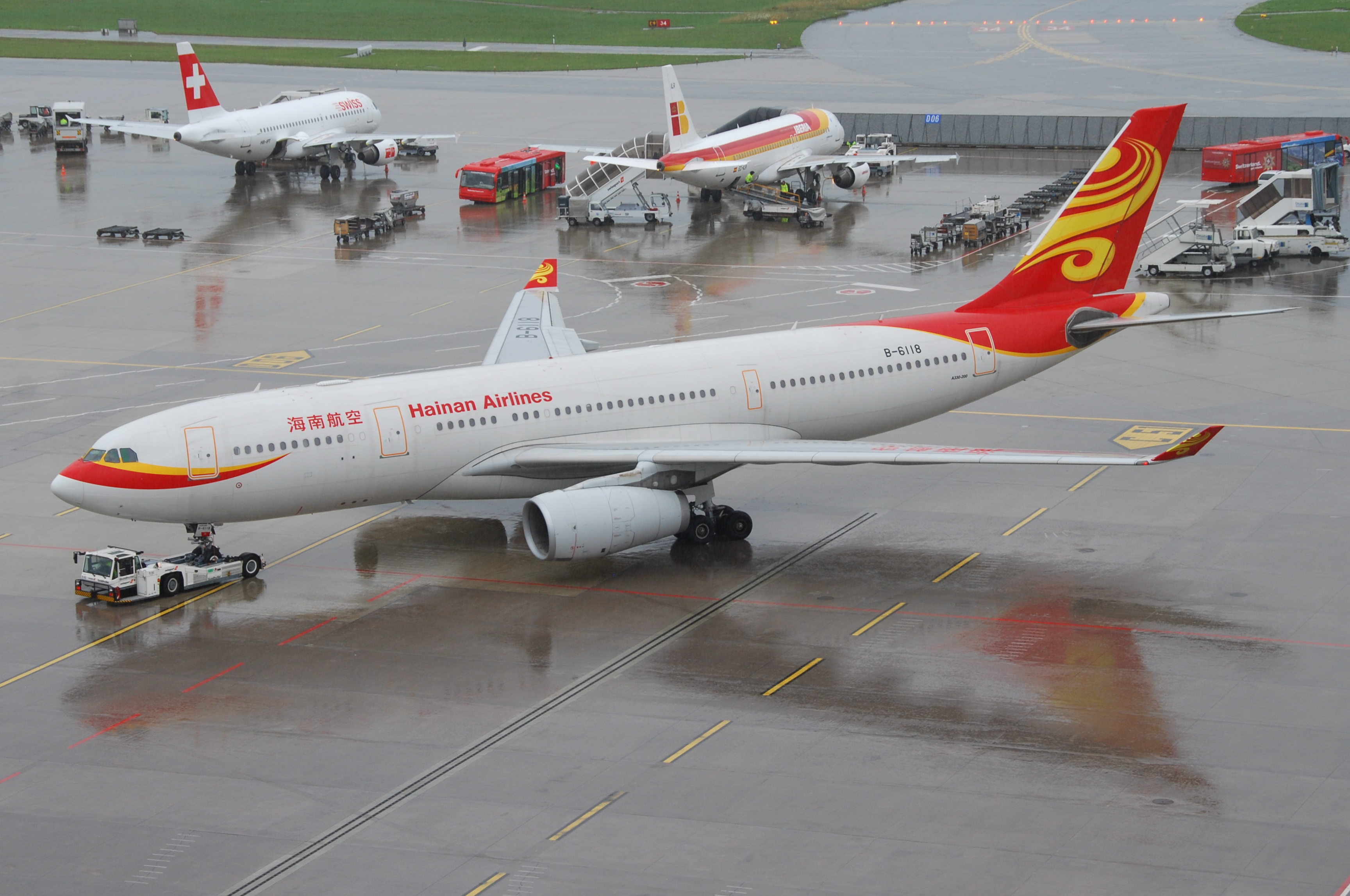 Hainan Airlines Airbus A330-200; B-6118@ZRH;17.07.2011/610bk